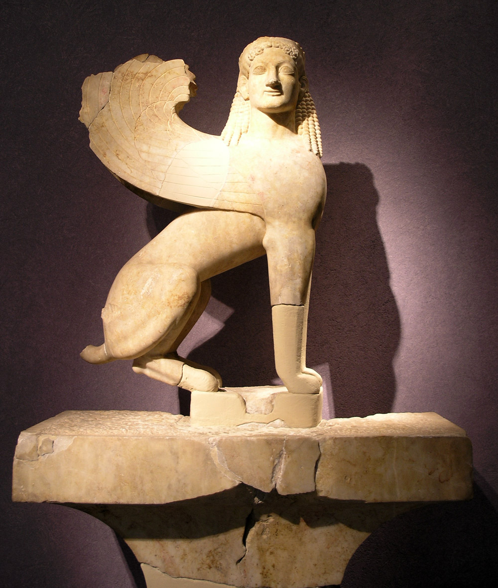 Archaic funerary sphinx (560–550 BC) wearing a head-band and a crown of leaves, found as a reused element in the Wall of Themistocles in the Kerameikos. Kerameikos Archaeological Museum in Athens, Inv. P1050. H. 63 cm (24 ¾ in.).